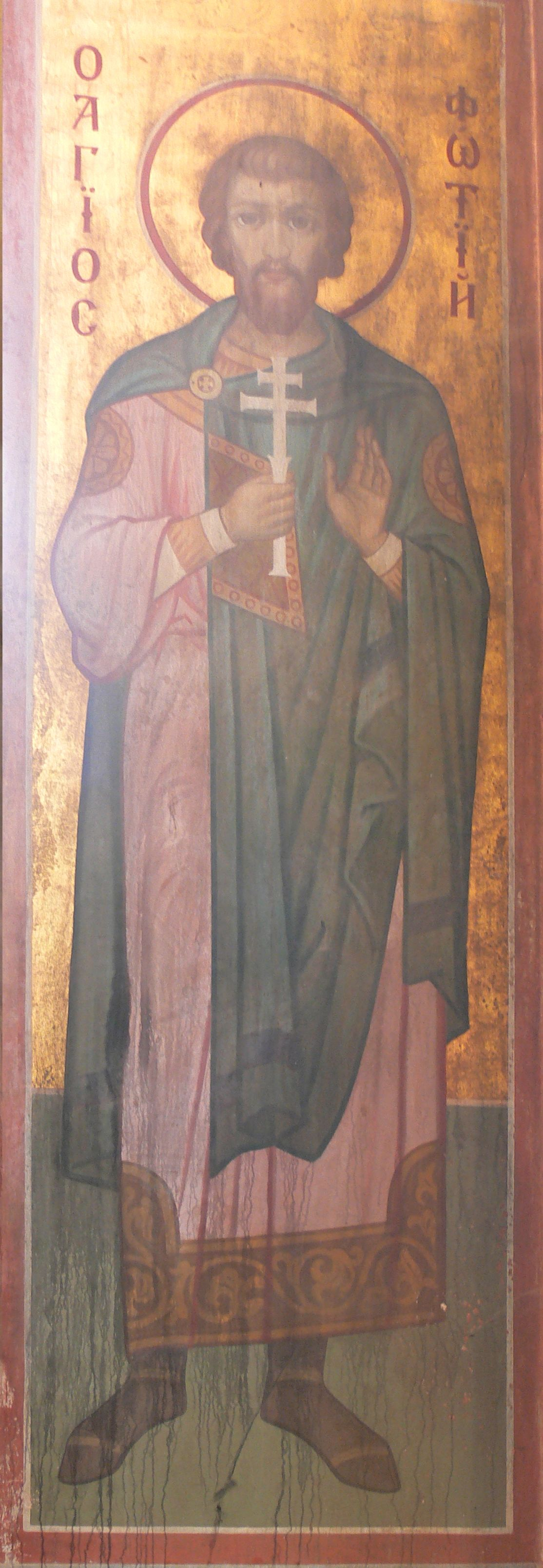 Saint Photius - the heavenly patron of archimandrite Fotiya